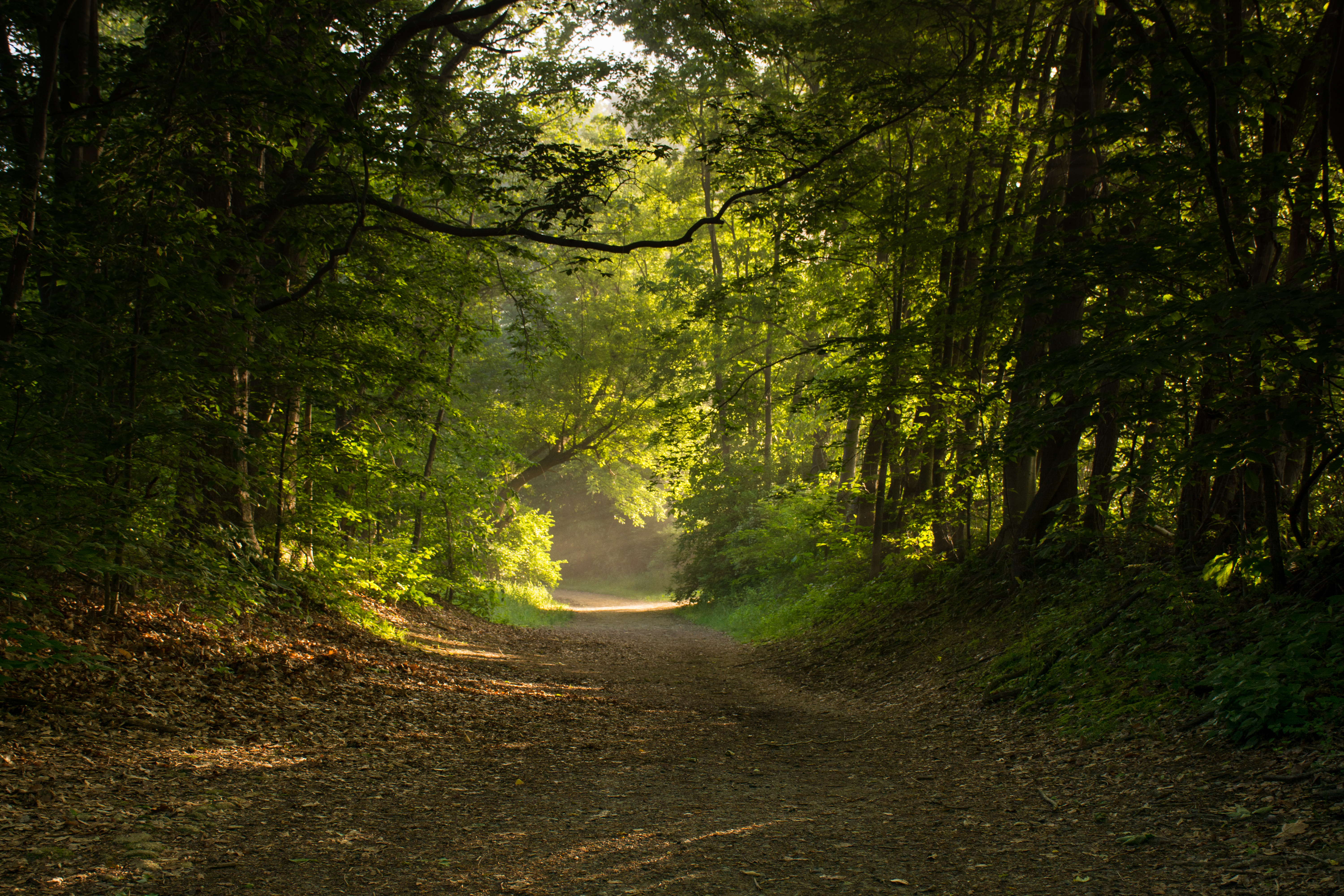 First State Historic National Park in Delaware , courtesy of Greg Young and Save The Valley.